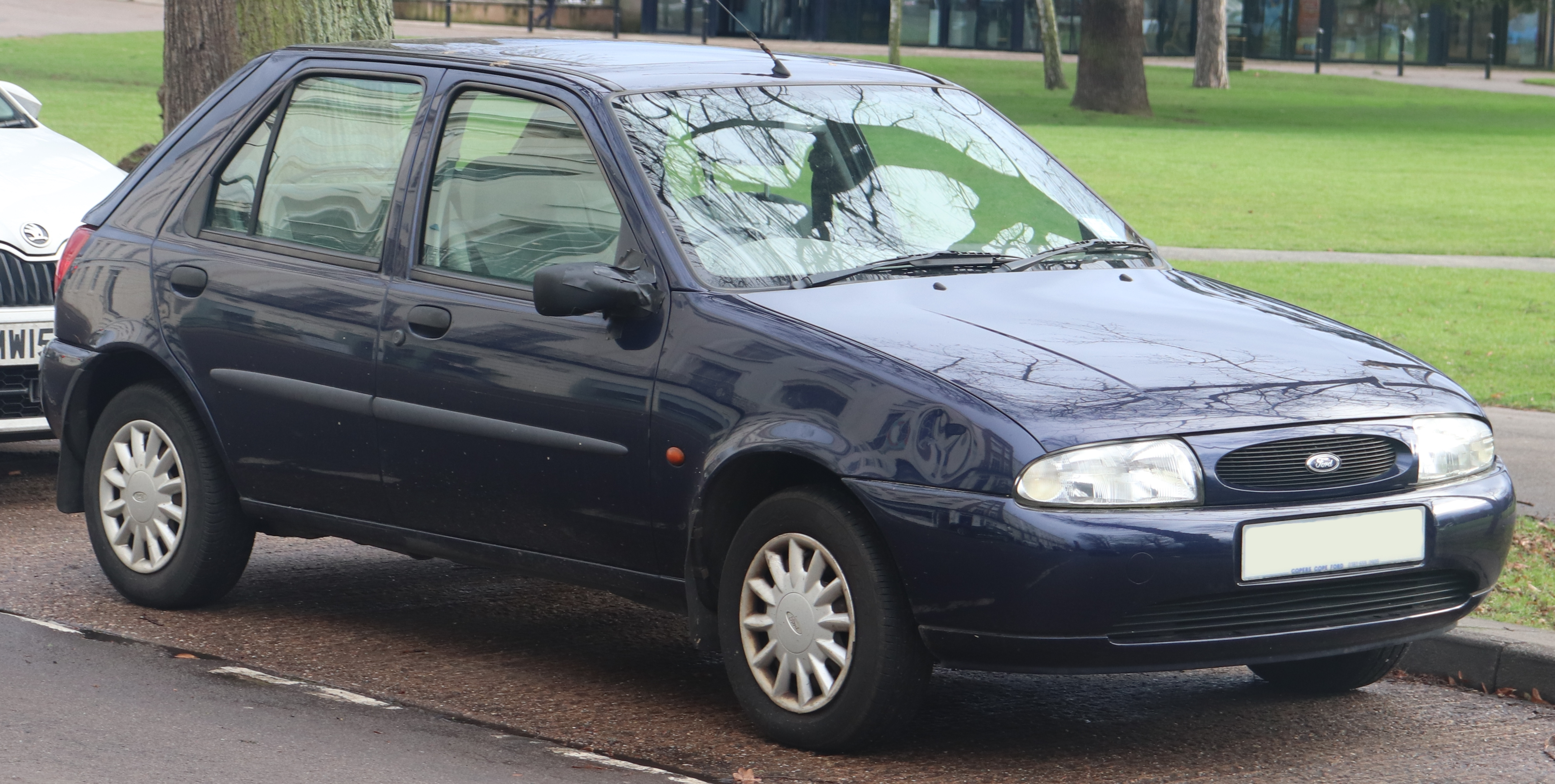 1998 Ford Fiesta LX Zetec 1.2 Front Taken in Leamington Spa